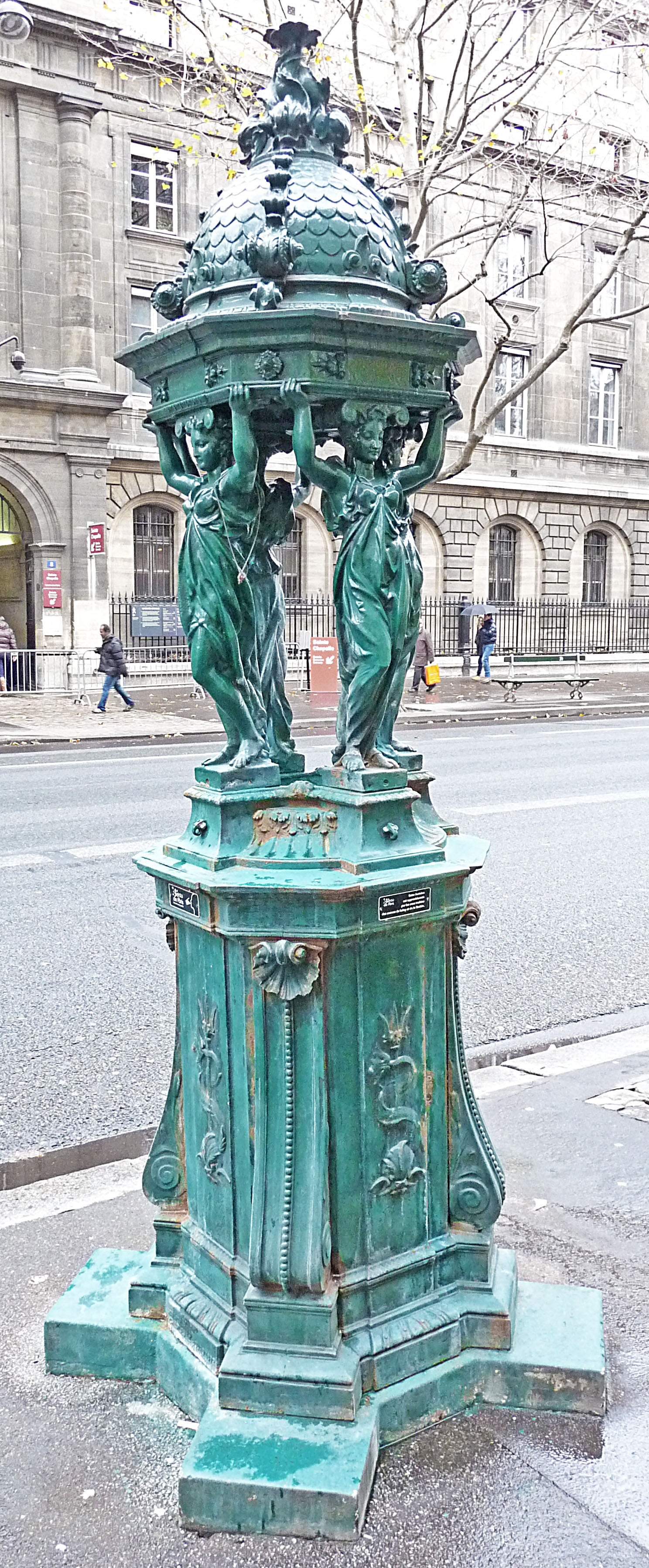 Fountain Wallace or four caryatids in Paris.